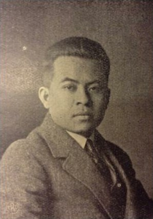 Datuk Djamin is a lawyer from Minangkabau when he was a student at Leiden University, Netherlands